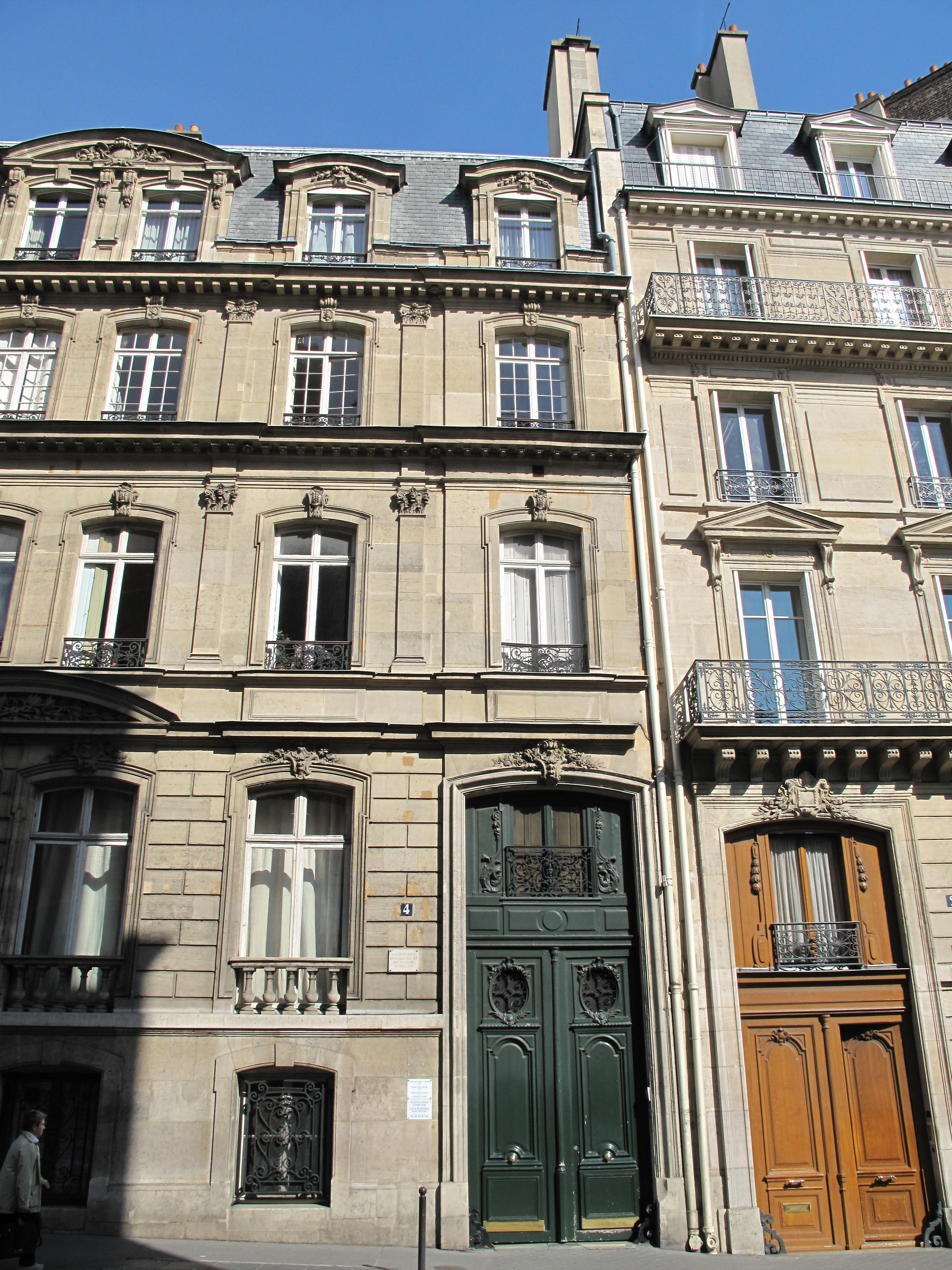 Building of the workshop of the impressionist painter Edouard Manet : 4, rue de Saint-Petersbourg, Paris 8th arrond.